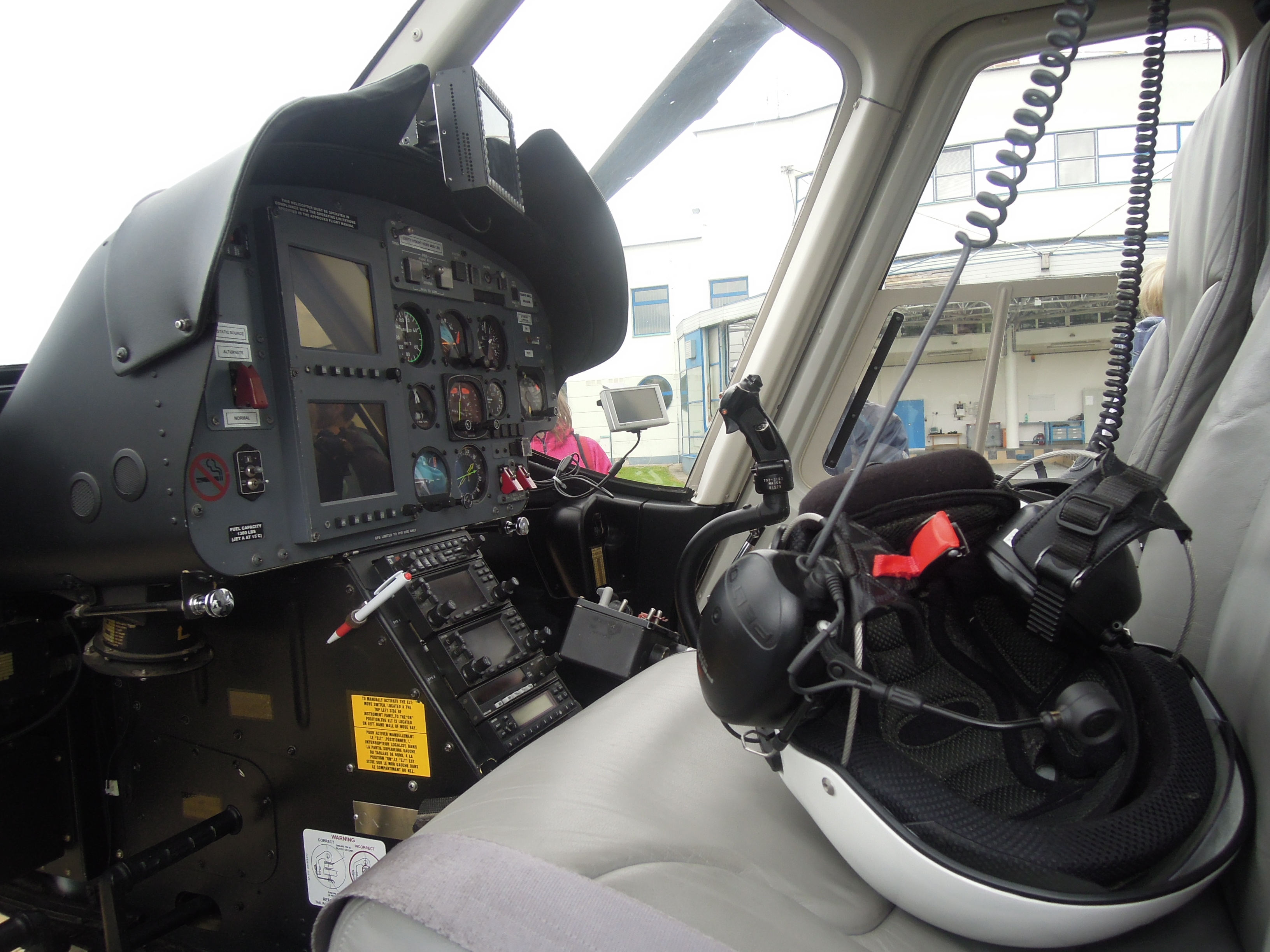 Rescue helicopter Bell 427 of Alfa-Helicopter company, Czech Republic